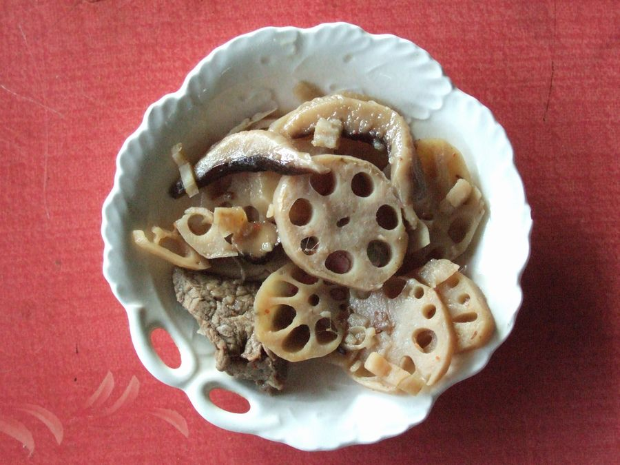 An example of lotus root food, boiled and seasoned(レンコン料理の一例；煮物)